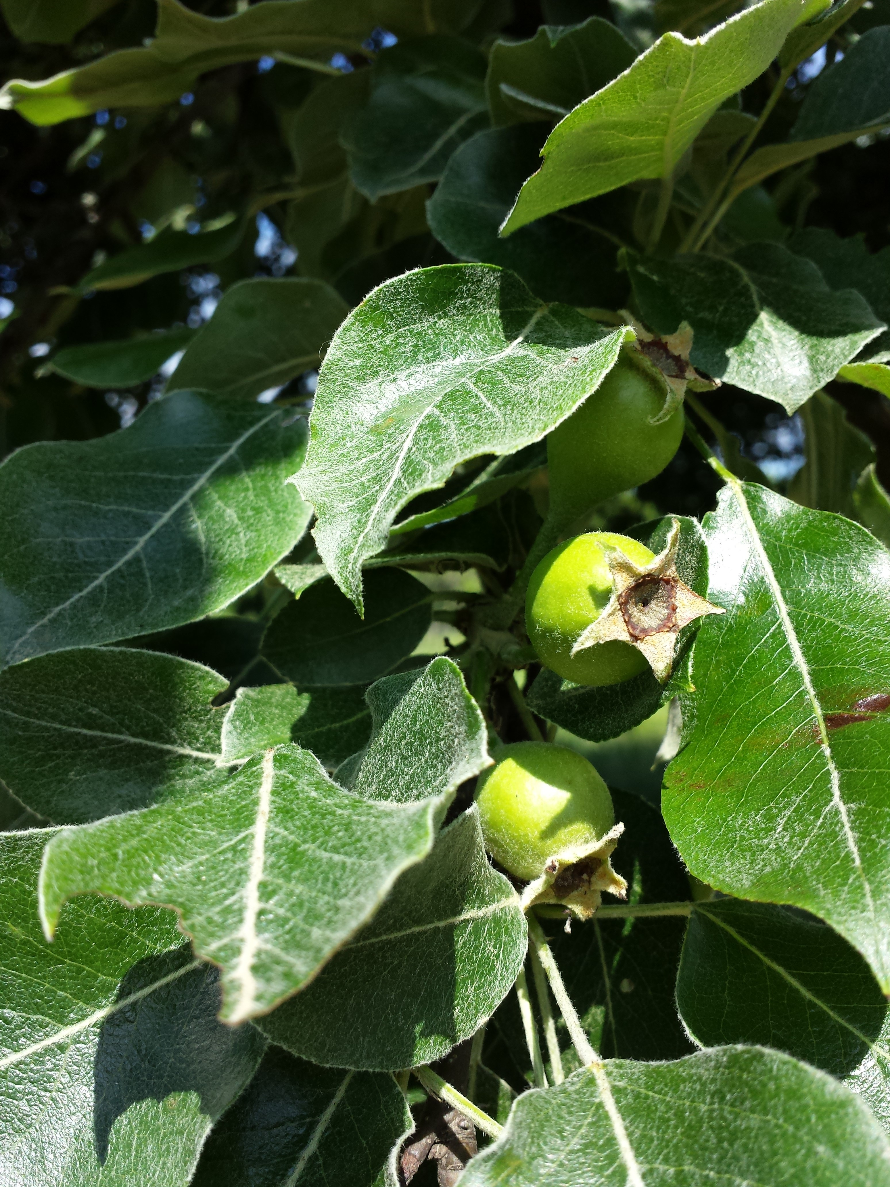 Leaves/fruits Taxonym: Pyrus austriaca ss Fischer et al. EfÖLS 2008 ISBN 978-3-85474-187-9; det. Gergely Király 2015-06-04 Location: Hills near Kemendollár, Zala County, Hungary - ca. 290 m a.s.l. Habitat: orchard